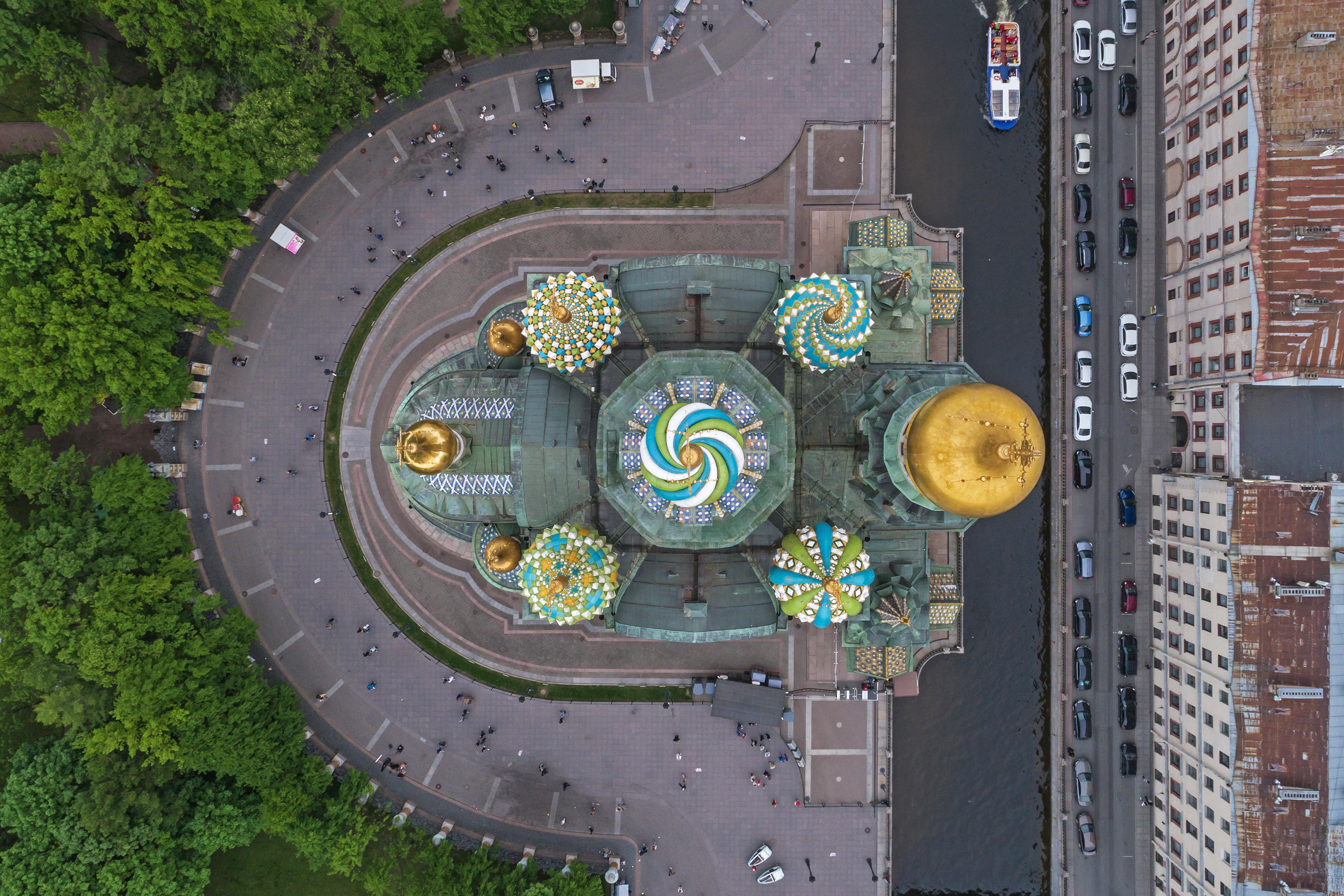 Aerial photo of the Church of the Saviour on the Blood in Saint Petersburg (Russia).